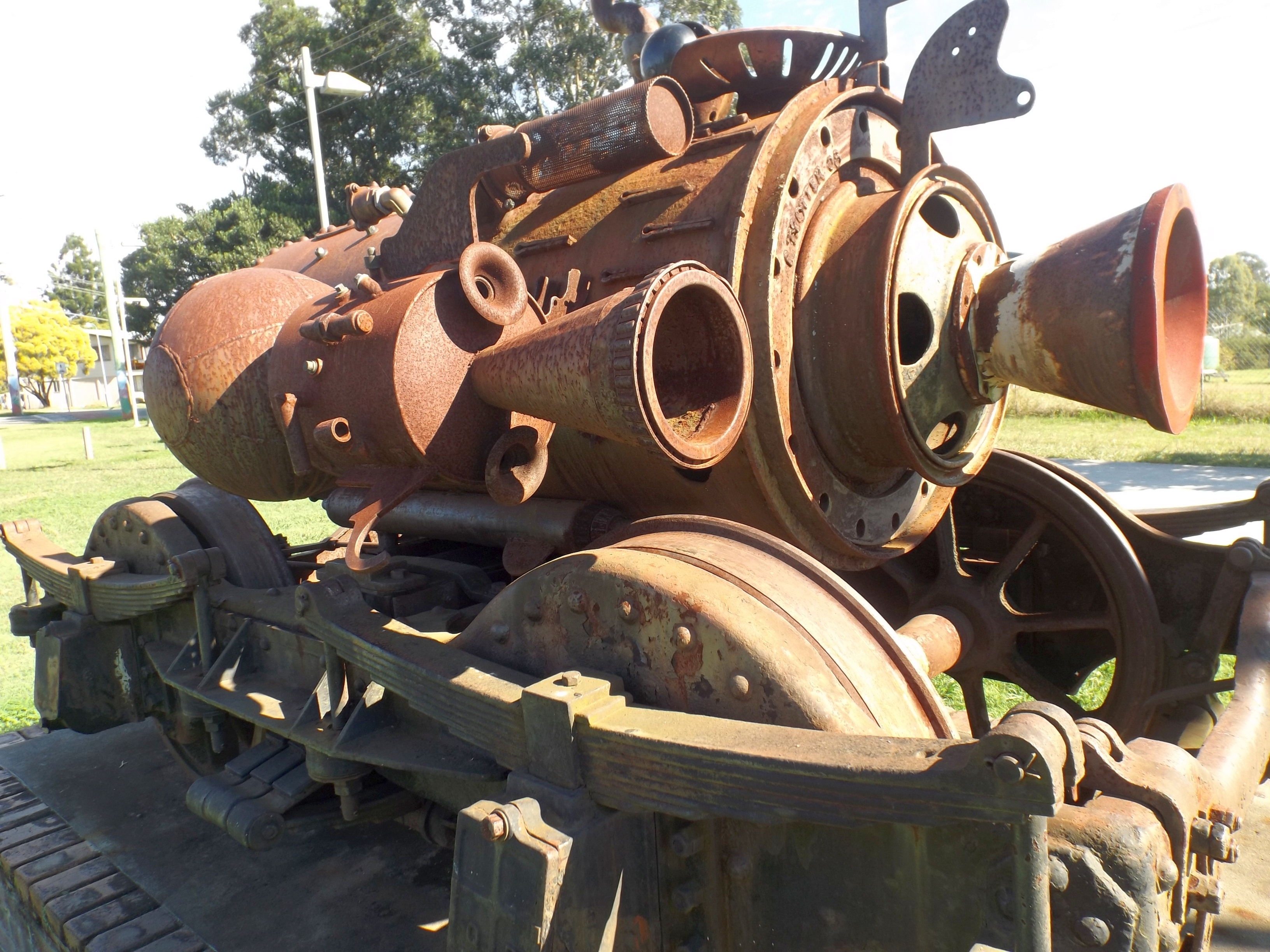 Photo of a sculpture at the Mihi Creek heritage site at Brassall, Ipswich, Queensland, Australia. Site was within the location the Queensland Heritage Register site.